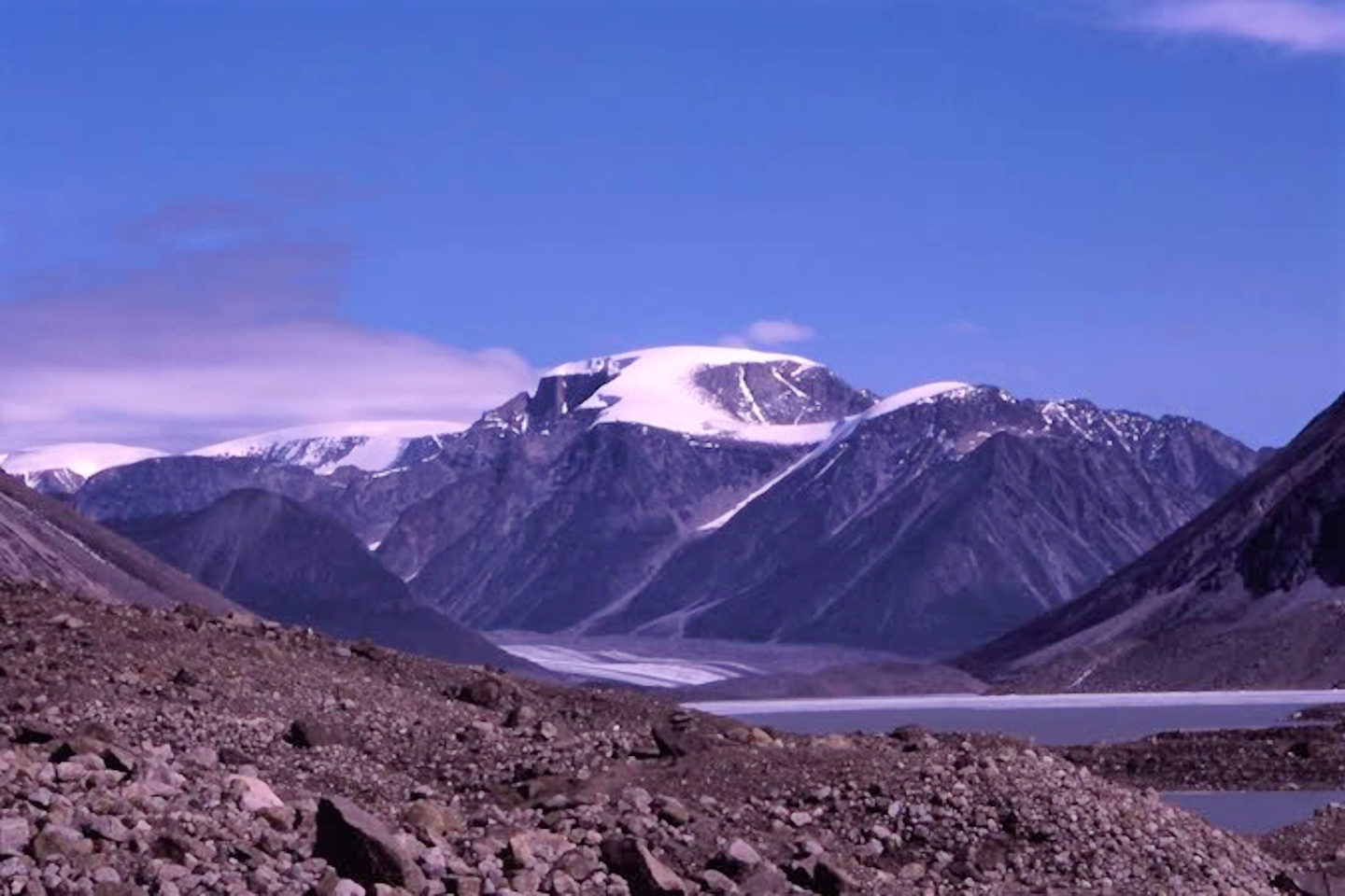 Akshayuk Pass & Midnight Sun Peak from below the toe of the Turner Glacier and above Summit Lake, doing a circumnavigation of the Iviangernat Mountain / Freya Peak massif via the Parade Glacier. Good views of Asgard and Loki on that outing. We started the outing from our Summit Lake bivy at about 2:00 am.